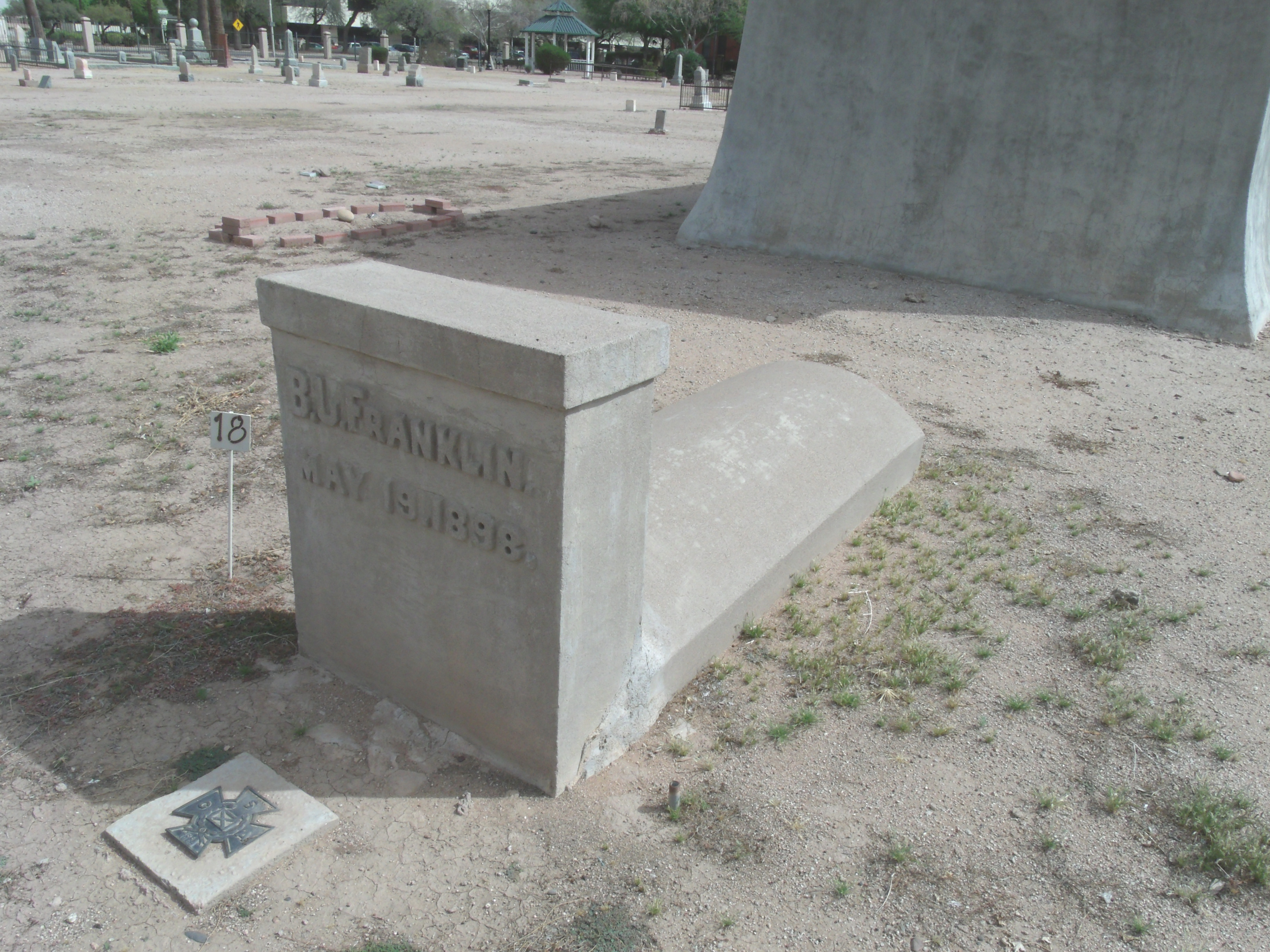 Grave site of Benjamin Joseph Franklin. Franklin was a Missouri U.S. Congressman and U.S. Consul to China who in 1896 moved to Arizona. President Grover Cleveland appointed Franklin Arizona's 12th Territorial Governor. Franklin died May 18, 1898. His grave is located at 1317 W. Jefferson Street in the "Rosedale Cemetery" section of Phoenix's historic Pioneer & Military Memorial Park. The Pioneer & Military Memorial Park is listed in the National Register of Historic Places, reference #06001317.